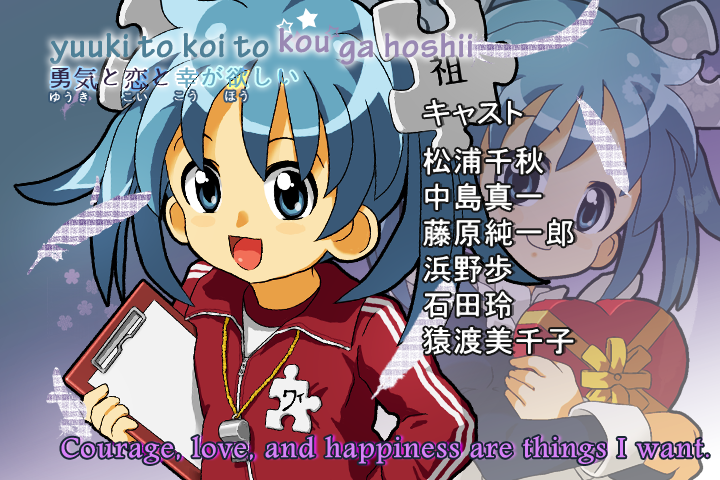 An imitation of a fansubbed anime opening with Wikipe-tan. Derivative.